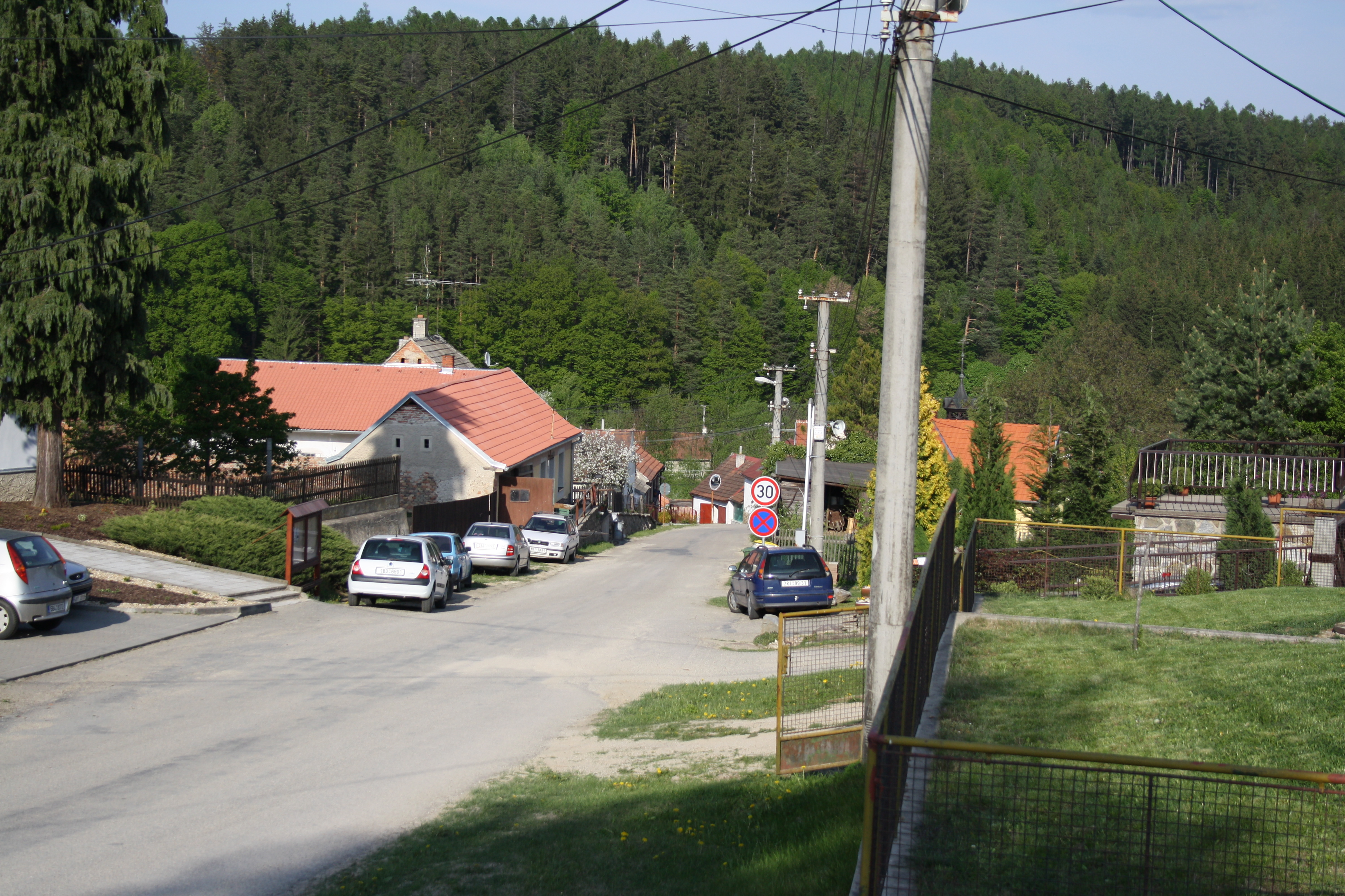 Top view of Zálesná Zhoř, Czech Republic.